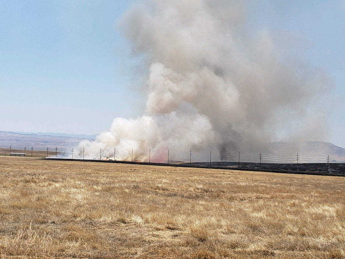 BoulderIC (update) Threat to structure mitigated and forward progress of fire stopped. Fire is 60% contained and work continues on containment lines near solar array.